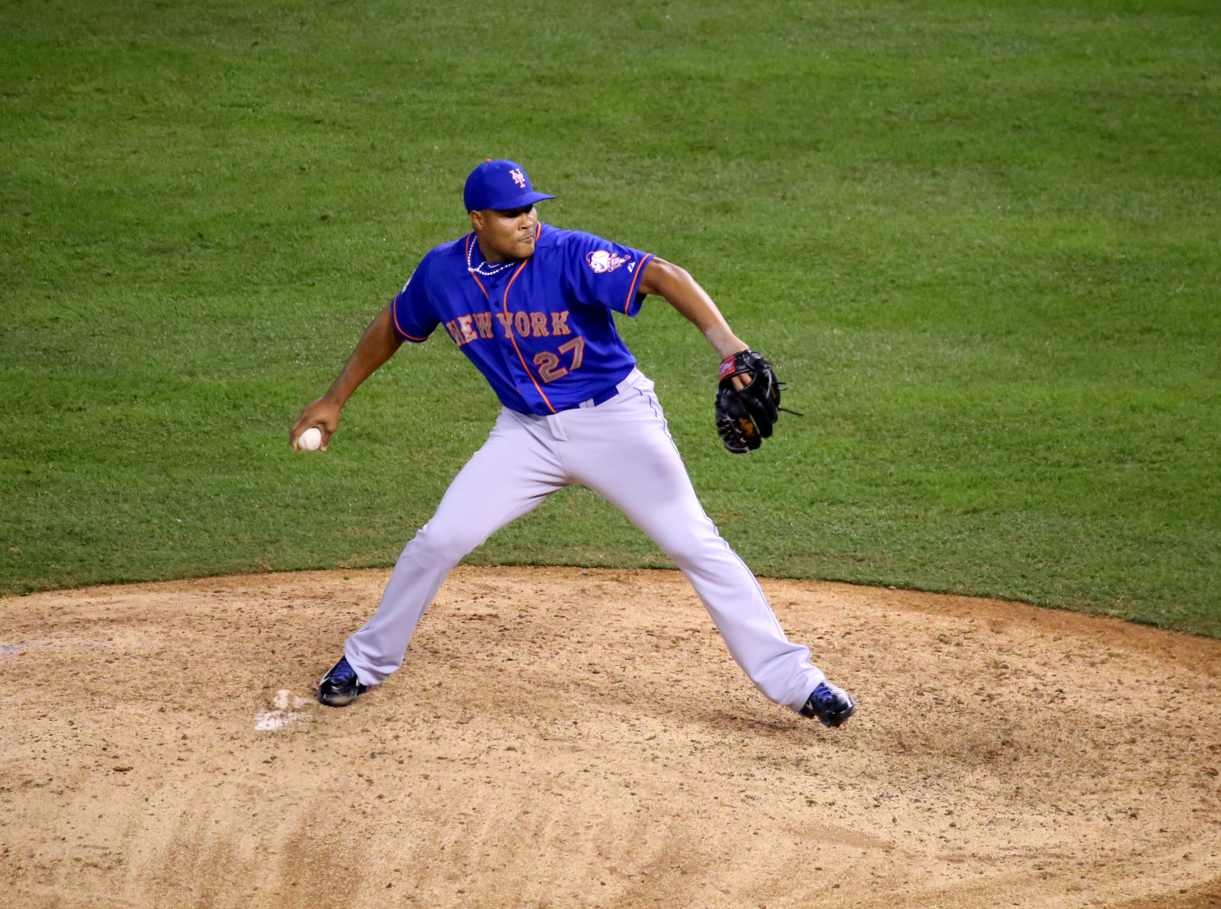 Jeurys Familia delivers a pitch during #WorldSeries Game 1.